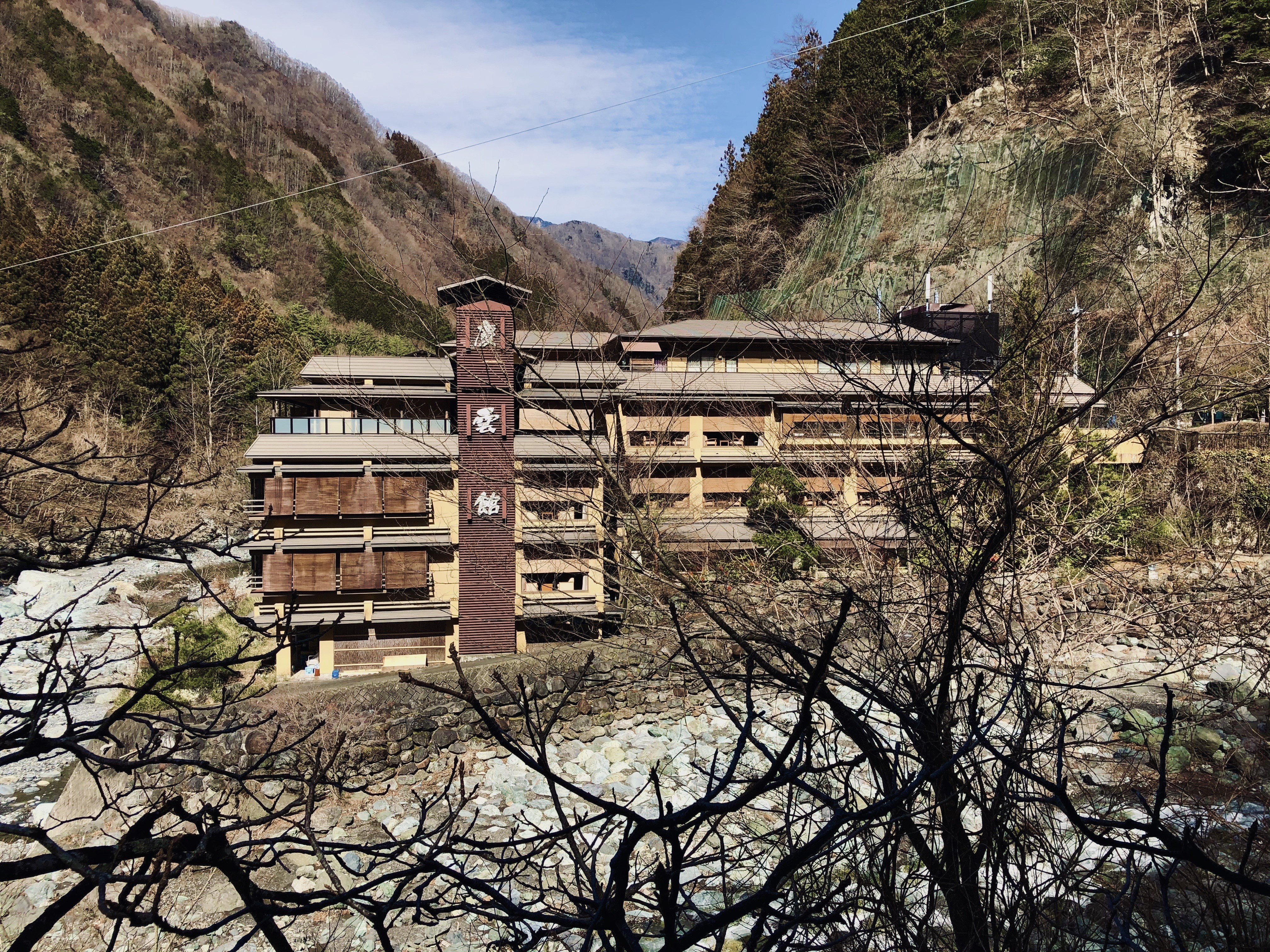 Outside picture, taken in 2020, of Nishiyama Onsen Keiunkan a hot spring hotel in Hayakawa, Yamanashi Prefecture, Japan. Founded in 705 AD, it is the oldest hotel in the world. In 2011, the hotel was officially recognized by the Guinness World Records as the oldest hotel in the world.